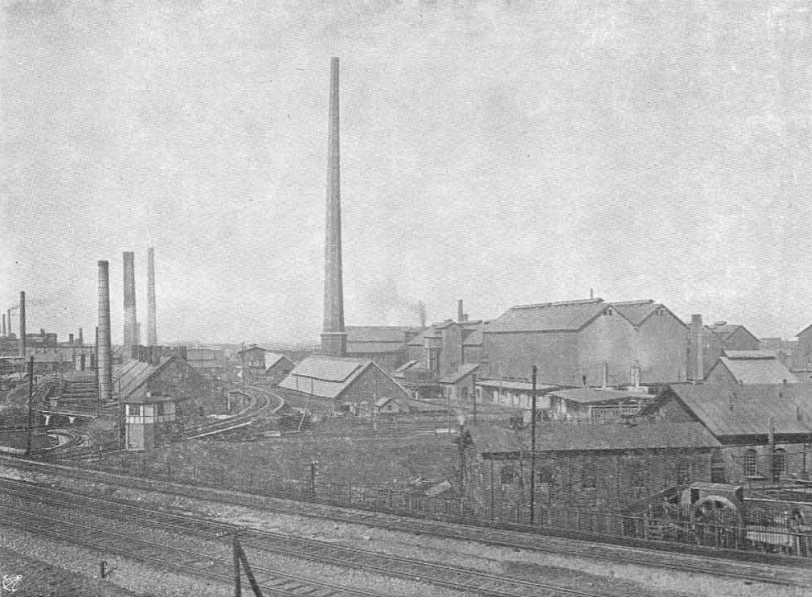 The Paulus and Recke zinc-works in Burowiec.